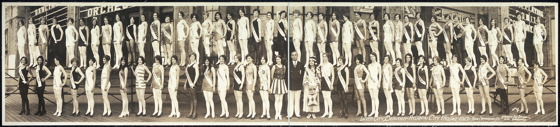 Contestants at the 1927 Miss America Pageant.